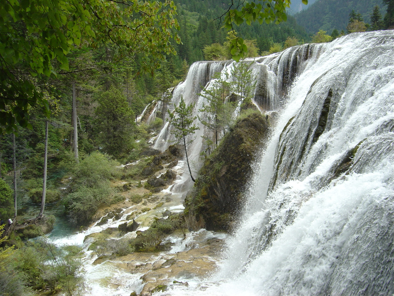 Pearl Shoal Waterfall, western Sichuan, China.